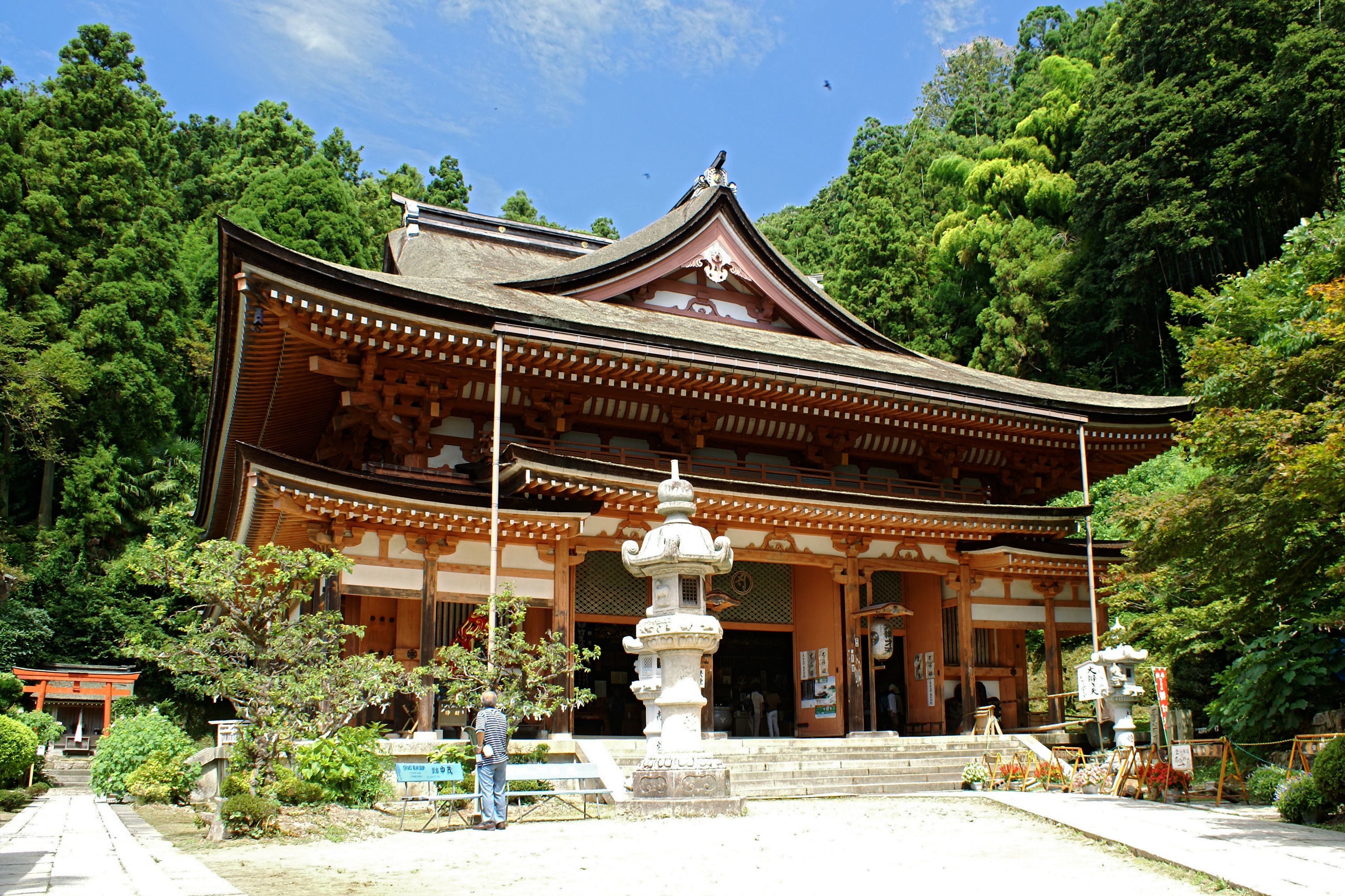 Hogonji in Nagahama, Shiga prefecture, Japan